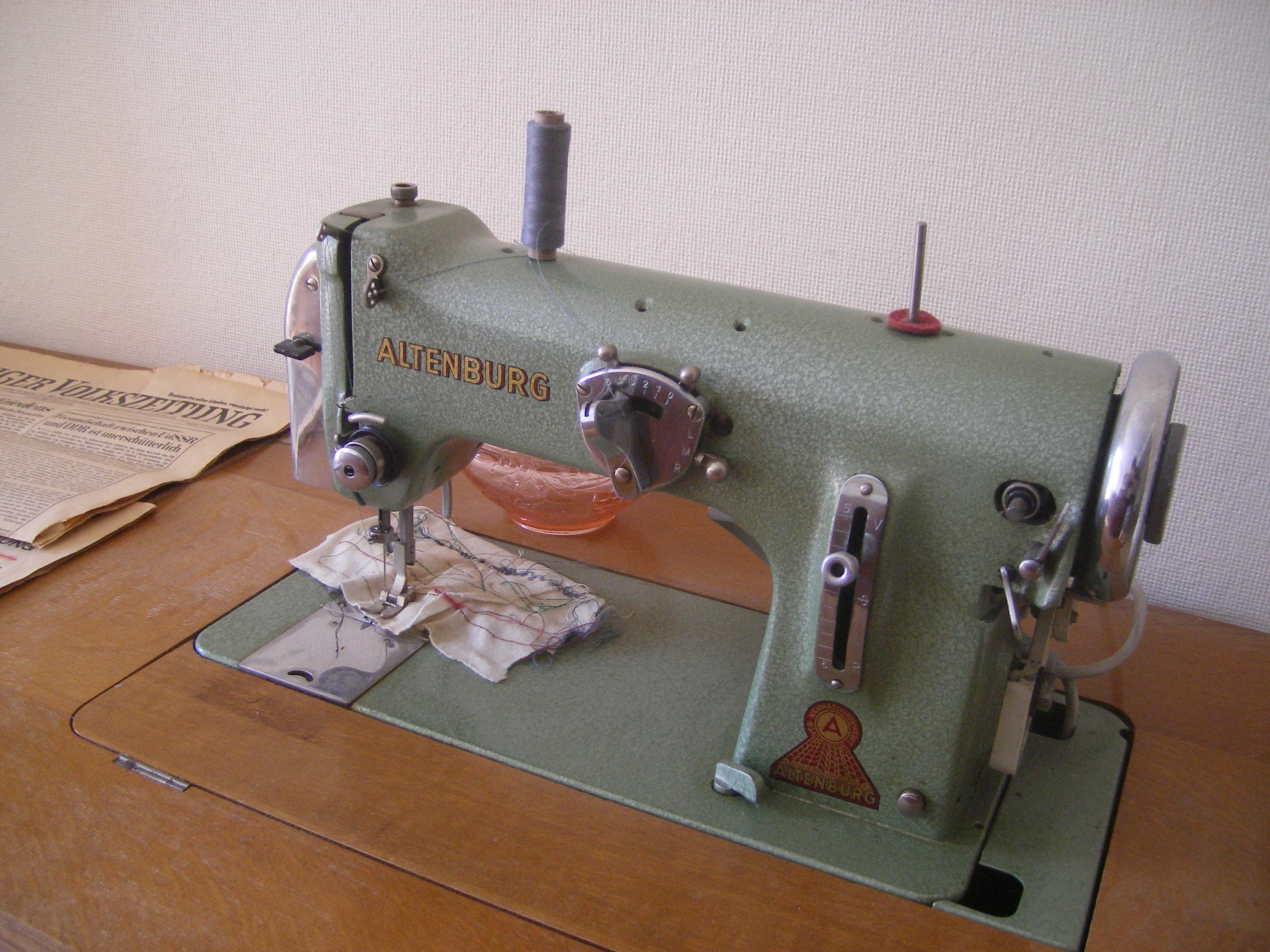 Sewing machine from VEB Nähmaschinenwerke Altenburg in the Historic Hairdresser’s in Altenburg/Thuringia